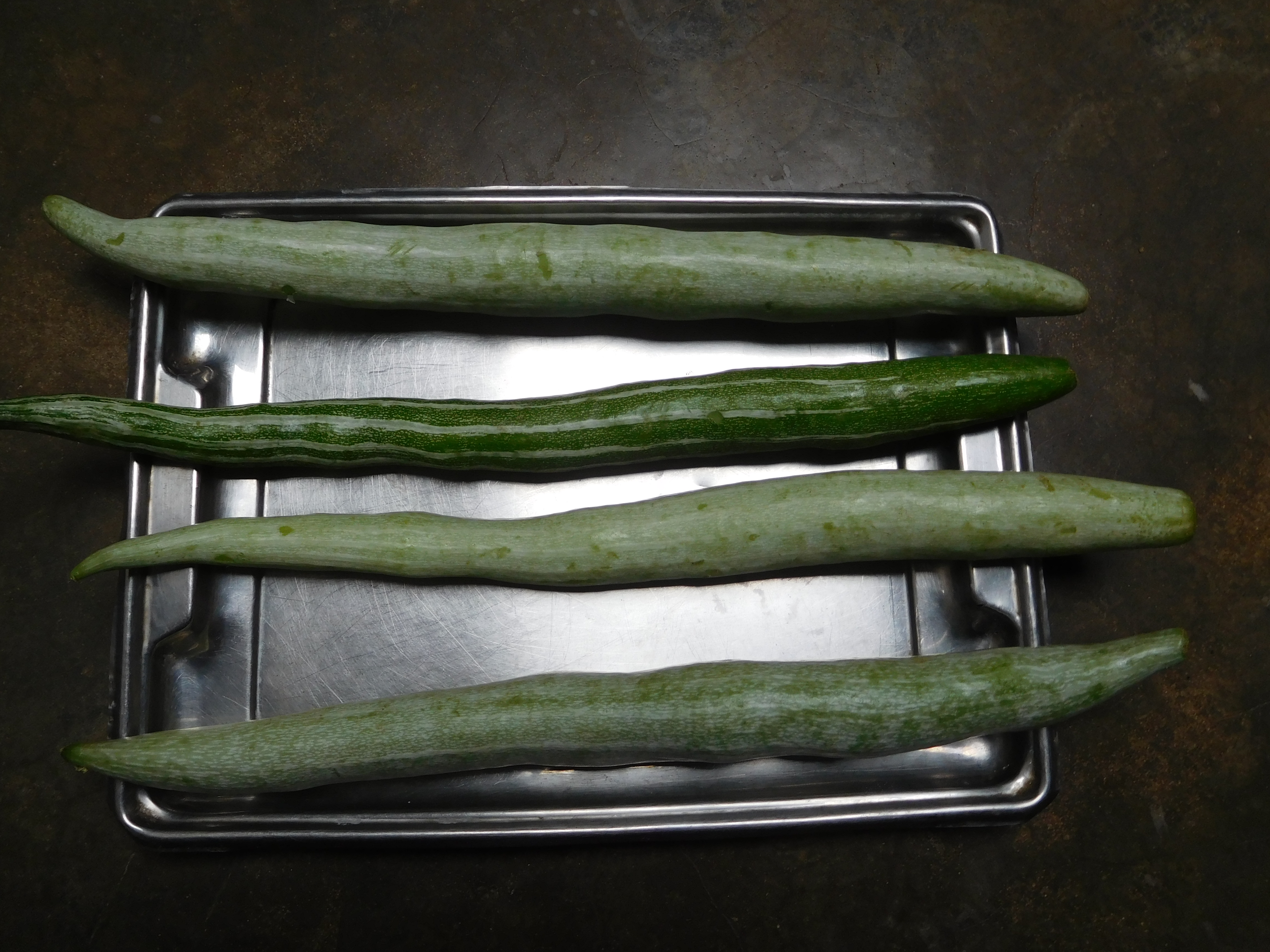 Snake gourd